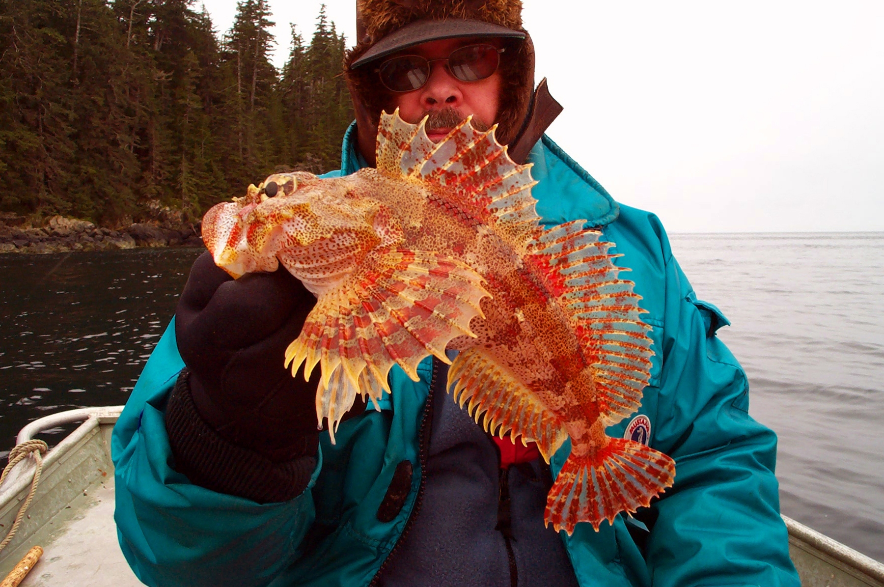 An Irish Lord sculpin Hemilepidotus hemilepidotus side view, held after jigging during a winter beach and ROV cruise. Alaska, Southeast